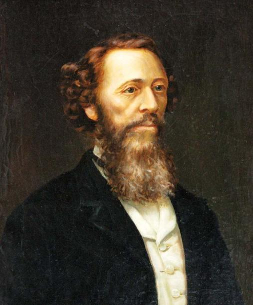 Portrait of Mark W. Delahay, a United States federal judge who resigned a under threat of impeachment, brought about by allegations of alcoholism.